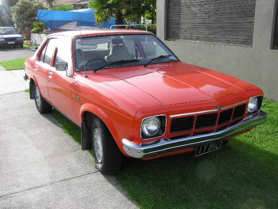 1976–1978 Holden LX Sunbird sedan. Note that the Holden Sunbird did not carry the Torana name.